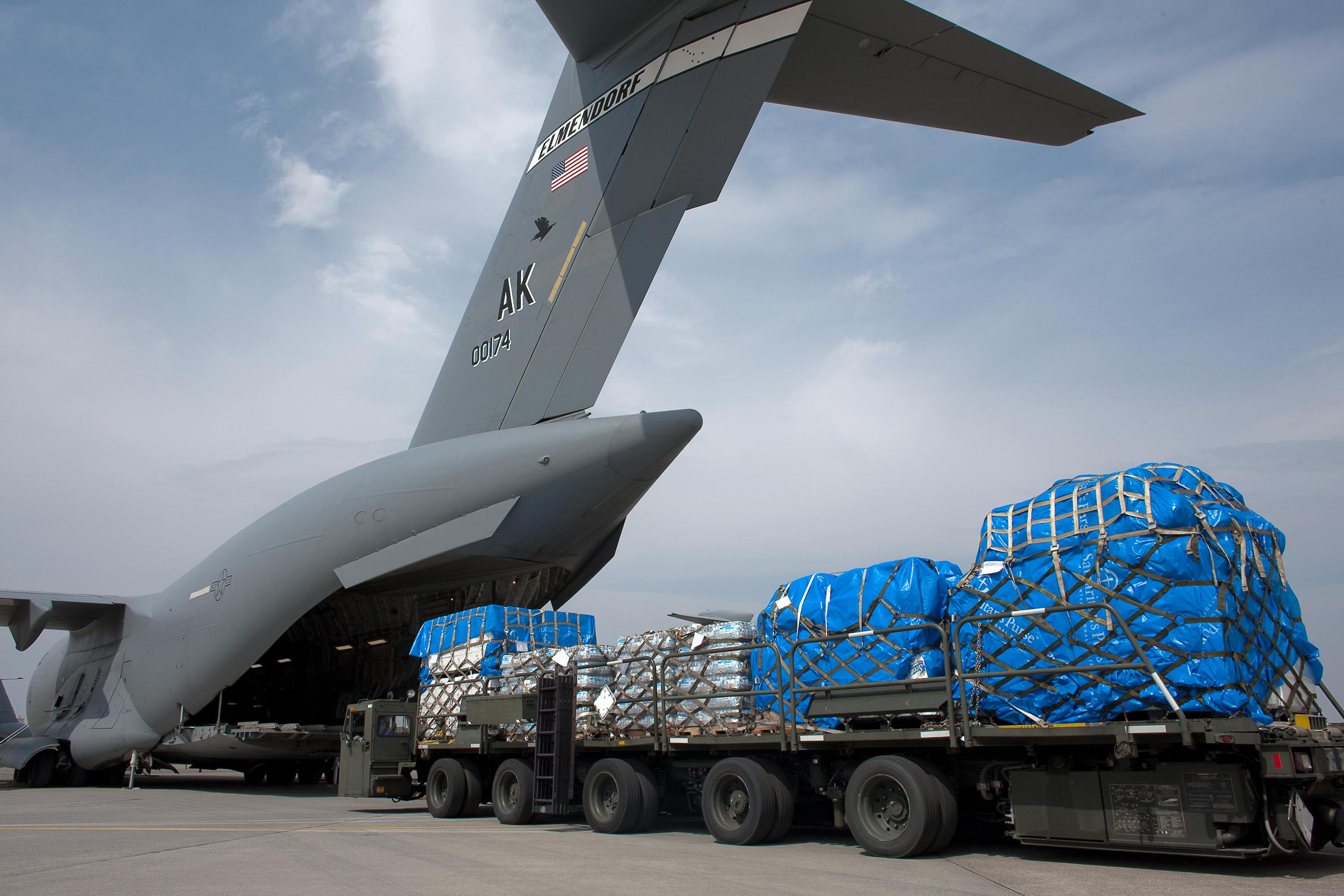 YOKOTA, Japan (March 20, 2011) Members assigned to the 730th Air Mobility Squadron load ten pallets of water, food and blankets onto a C-17 Globalmaster III aircraft. These are the first humanitarian relief supplies to be delivered to Sendai. (U.S. Navy photo by Yasuo Osakabe/Released)